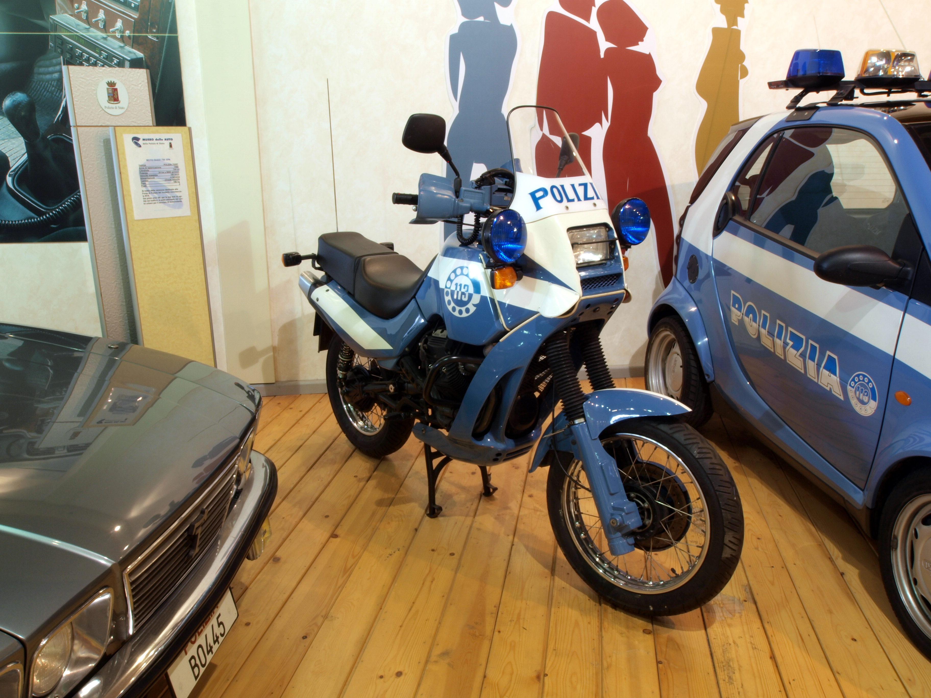 Photographed at Rome, Italy.